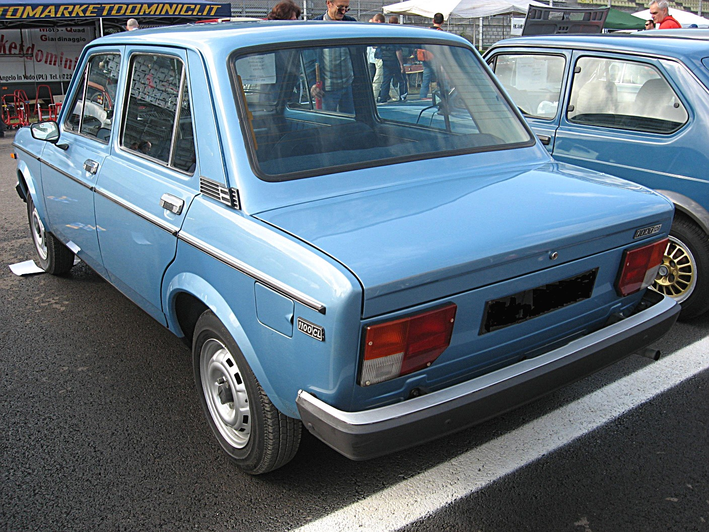 Subject: Fiat 128 Mk2 Date:September 14th, 2008 Event: Mostra Scambio by the Imola Circuit Place/Country: Imola (BO), Italy I release all rights in the public domain.